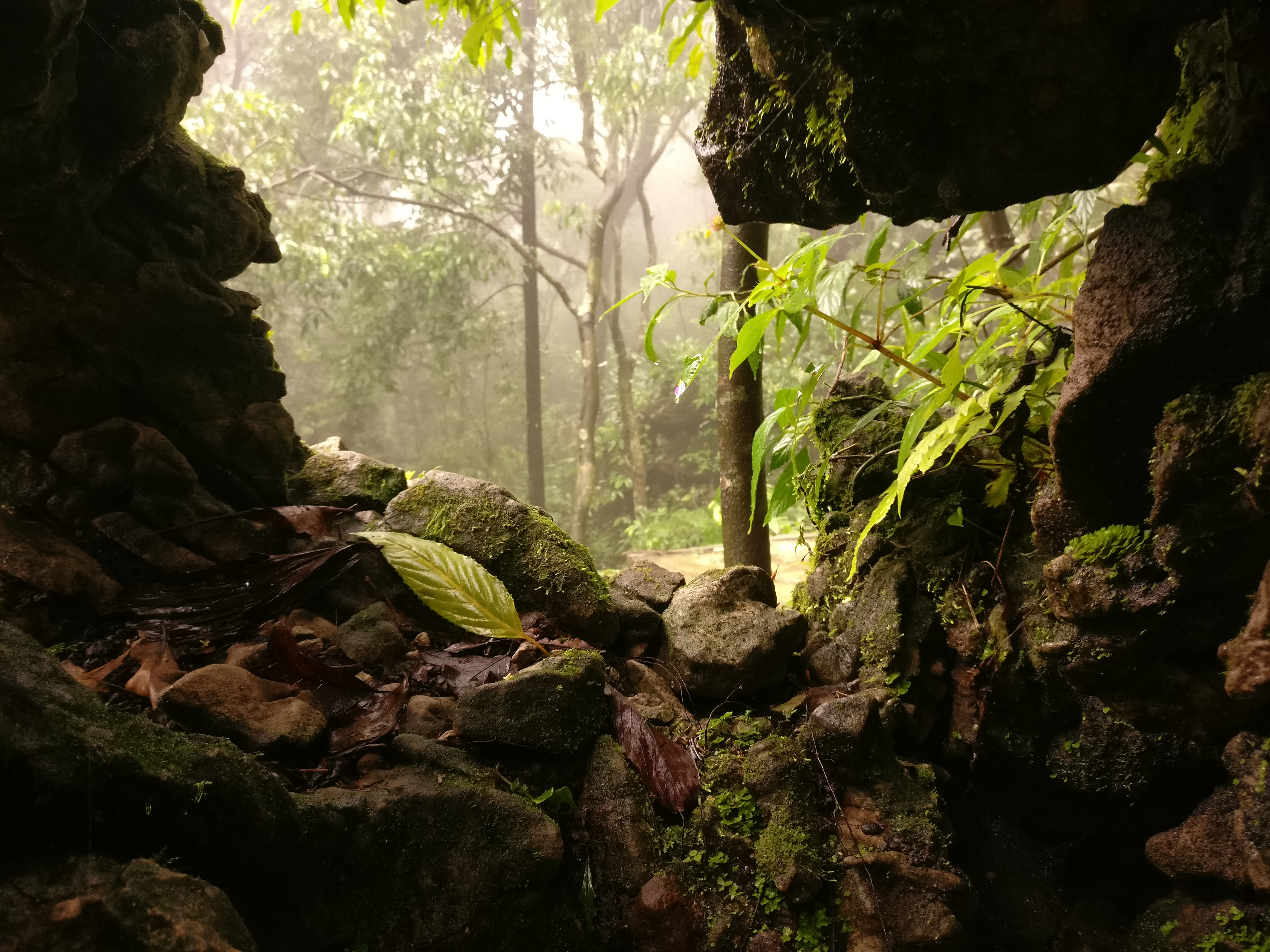 Mawsmi Caves, Cherrapunji